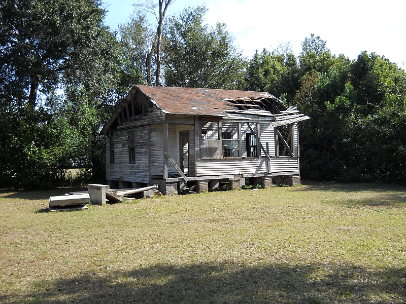 W.J. Quarles Cottage located in Long Beach, Harrison County, Mississippi, USA.